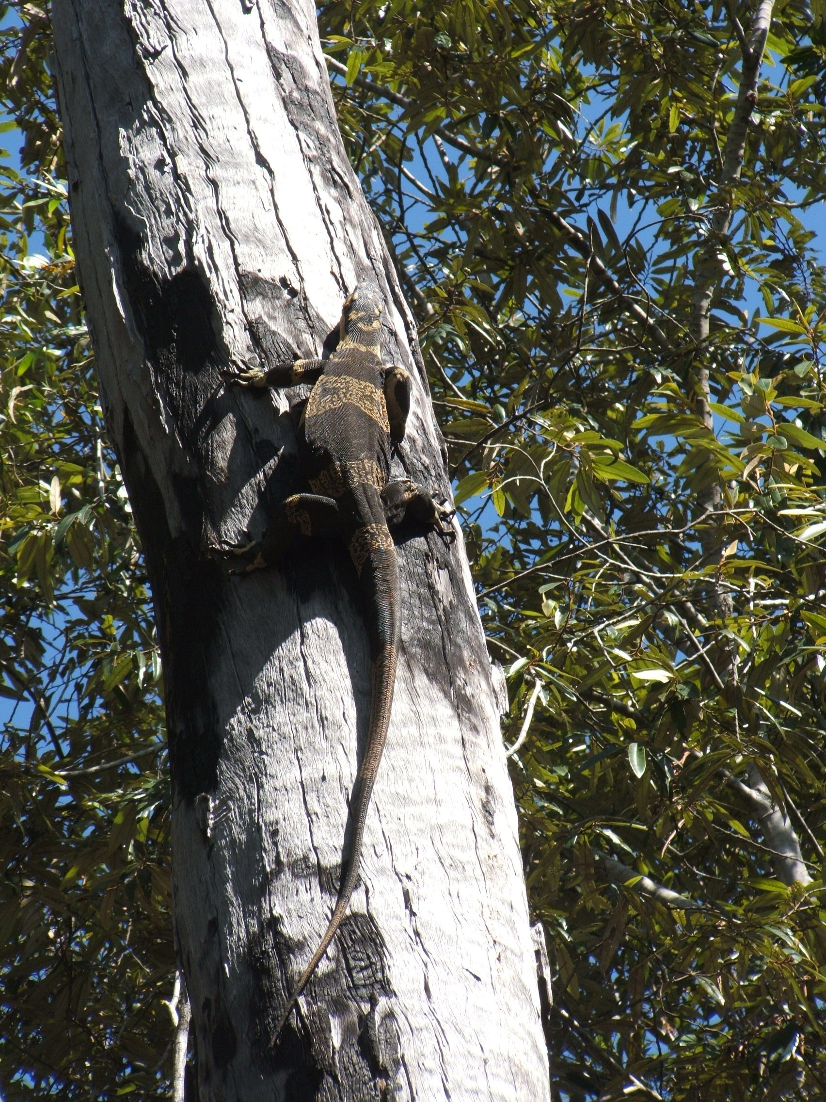 Lace Monitor - Bell's Form. On the Fraser Coast in Queesland Australia.